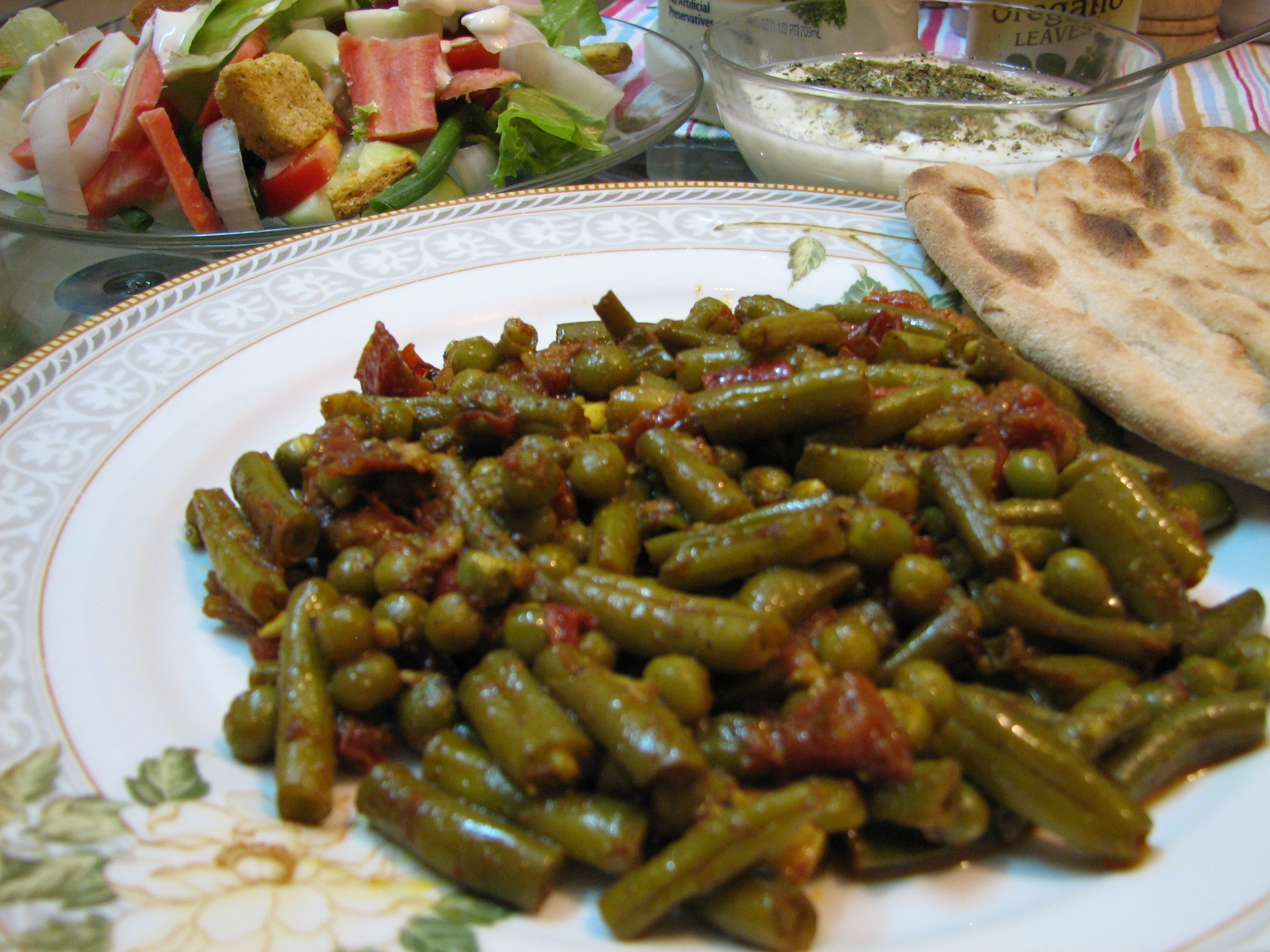 Fasilla or Pasilla - Cooked string beans with, peas can be added extra. It is usually prepared for lunch but can also be served as a side dish during any meal.